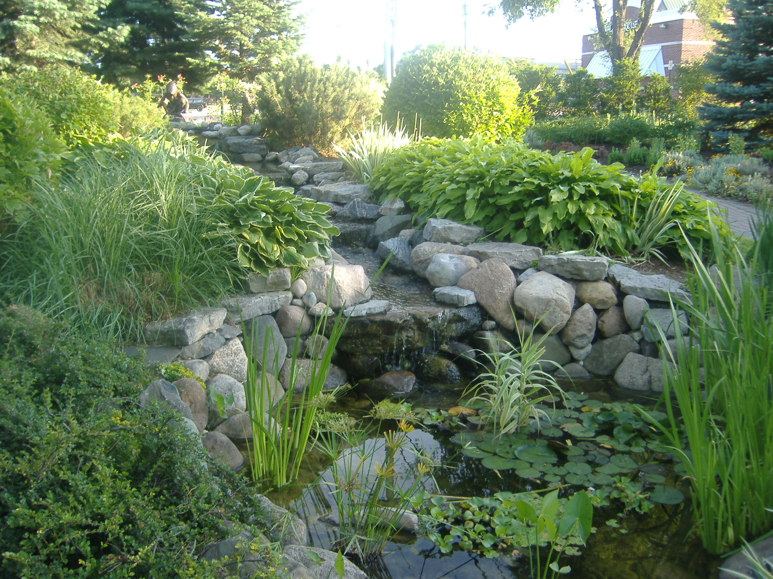 Rochester, Michigan. Rotary Gateway Park. Located adjacent to Rochester Hills Public Library and Paint Creek. Photo taken June 23, 2007.